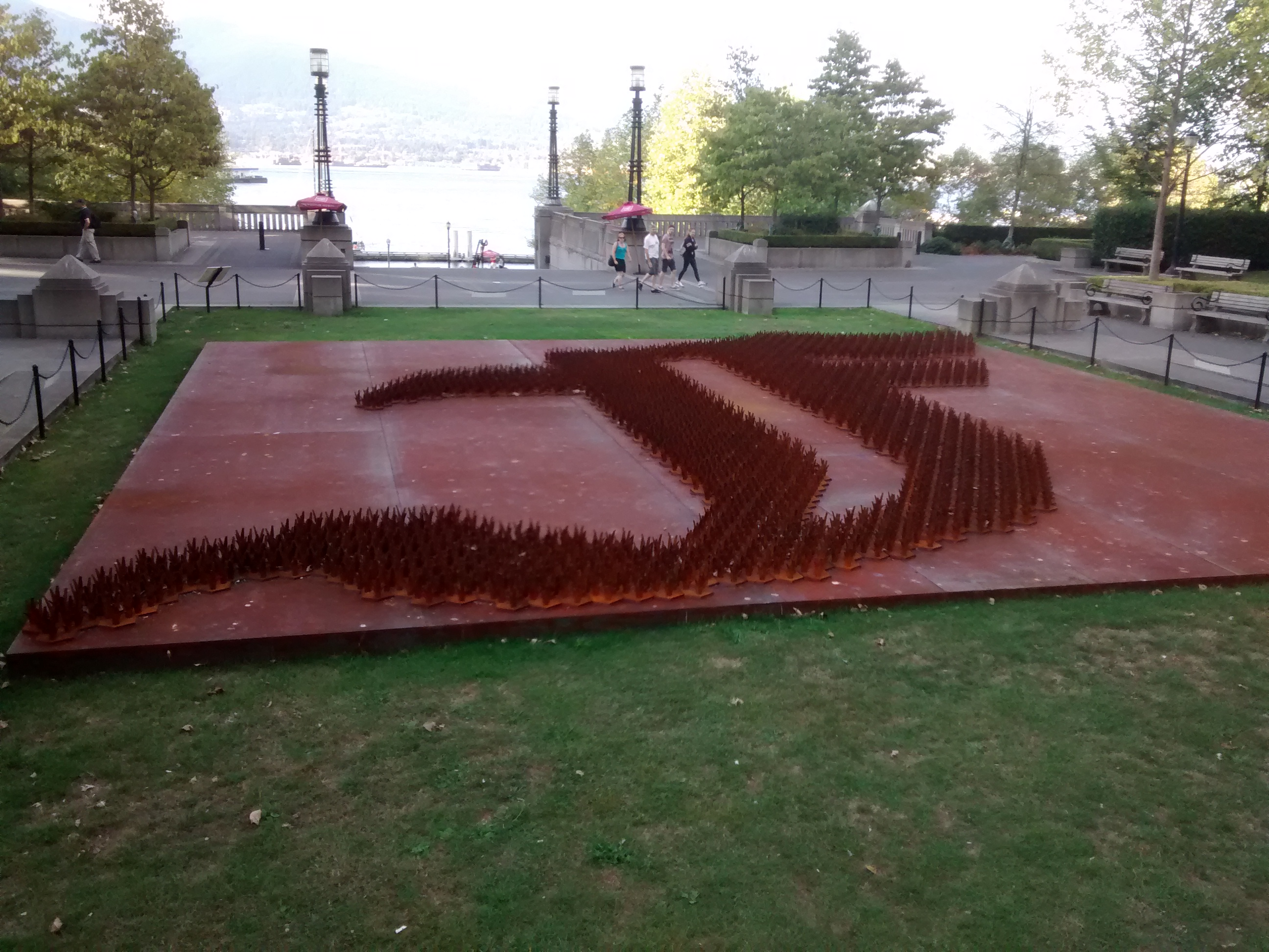 Ai Weiwei's work "F Grass" in Vancouver.